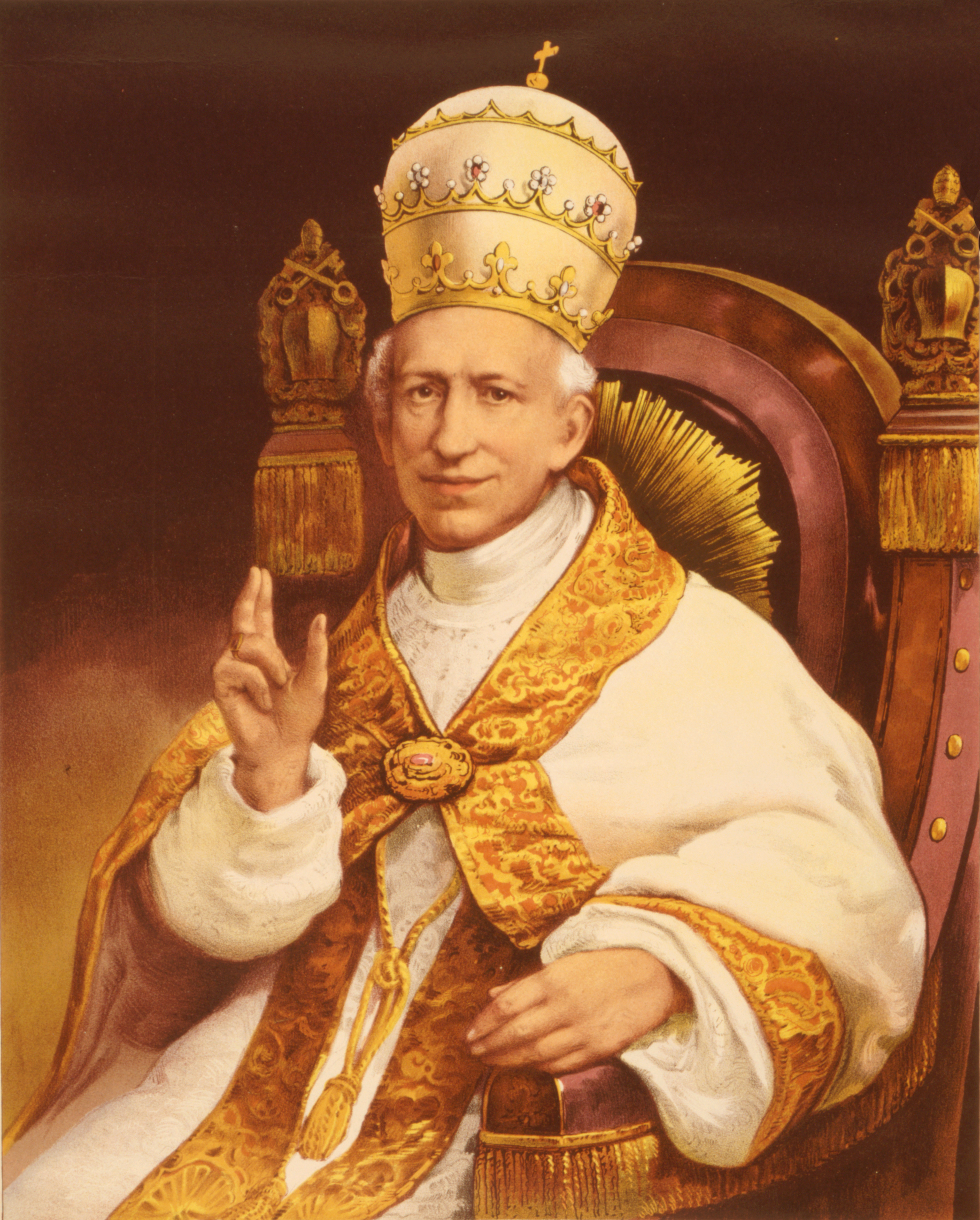 Pope Leo XIII.